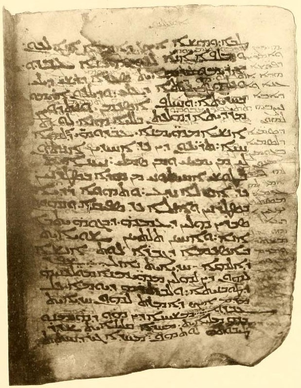 Syriac Sinaiticus - fol. 21v (=24v) - Matthew 15.12-27